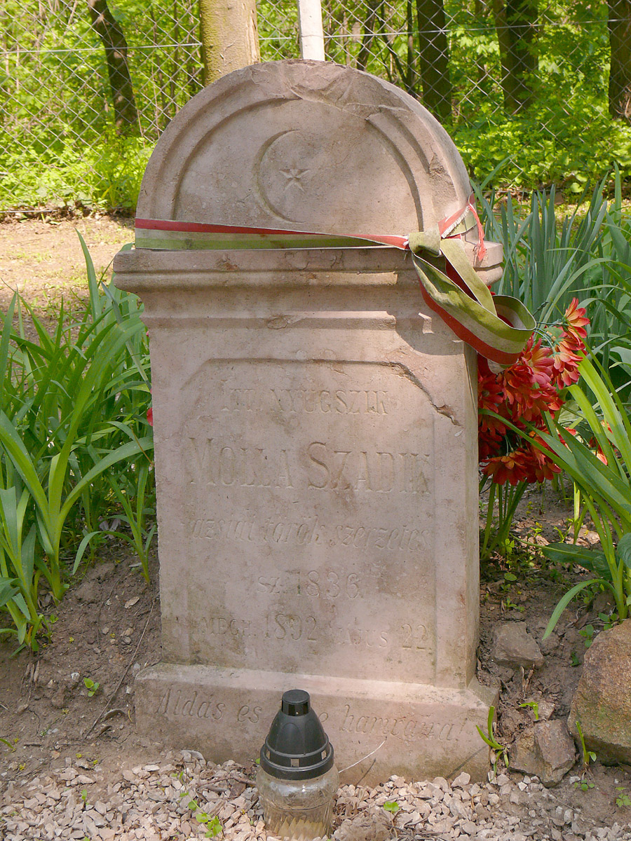 Molla Sadik's grave in Velence, Hungary